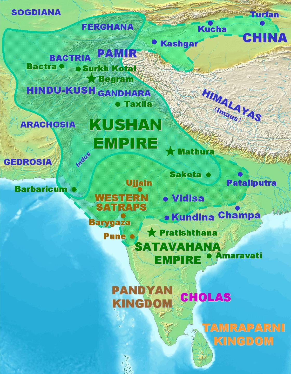 Map of the Kushan Empire. Own work. Reference: map of the Metropolitan Museum of Art.